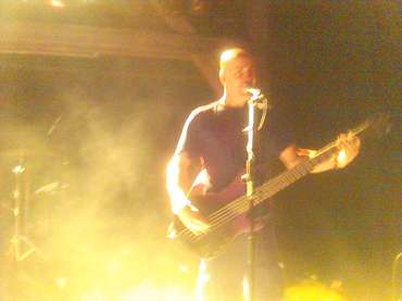 Grag Bailey playing the bass. The band Petra from USA's performance in Kolding, Denmark on 14th April 2005